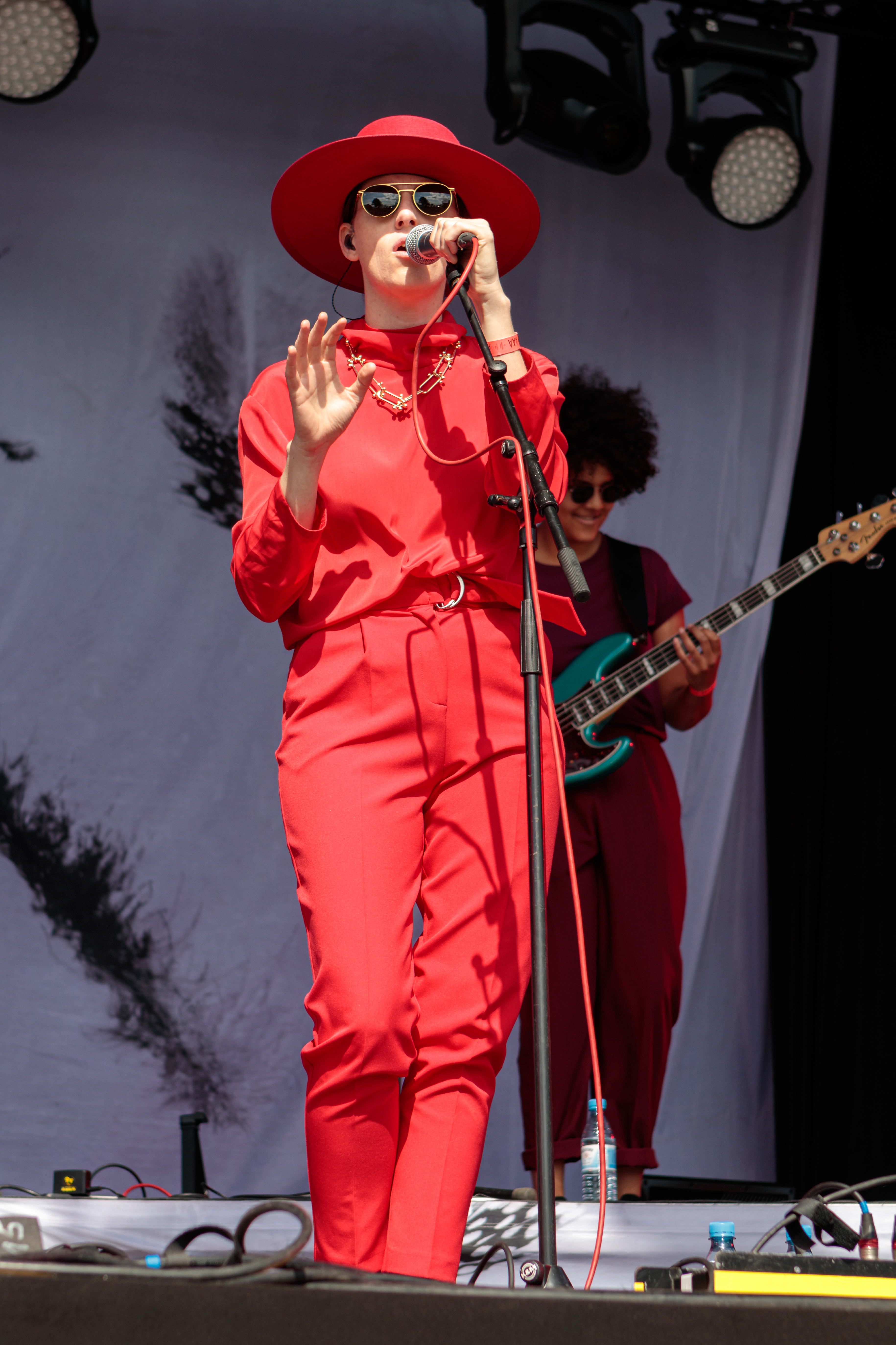 Kat Frankie on the Mainstage at Haldern Pop Festival 2019.